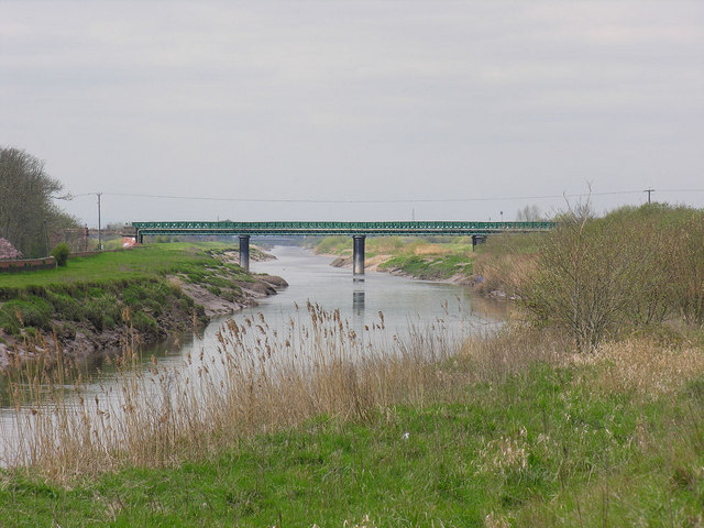 Dutch River Railway Bridge, Goole, East Riding of Yorkshire, England.This bridge carries the Goole to Doncaster line across the 'Dutch River' or River Don, seen here as the tide is flooding in.